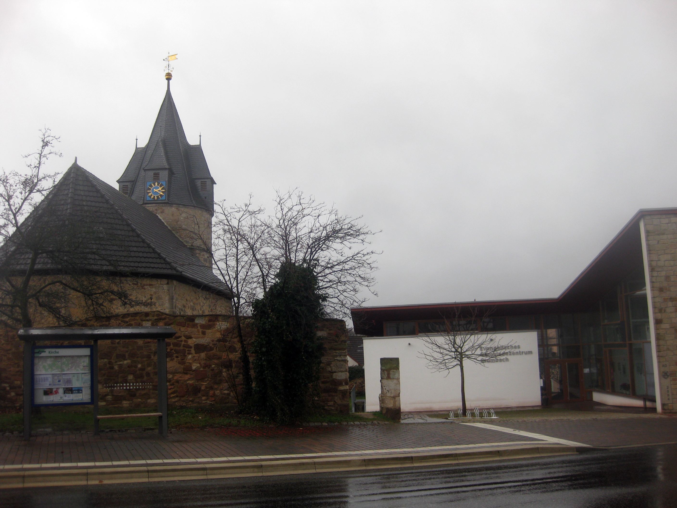 Church in Crumbach,Lohfelden. New Building by Hegger-Hegger-Schleiff, Kassel